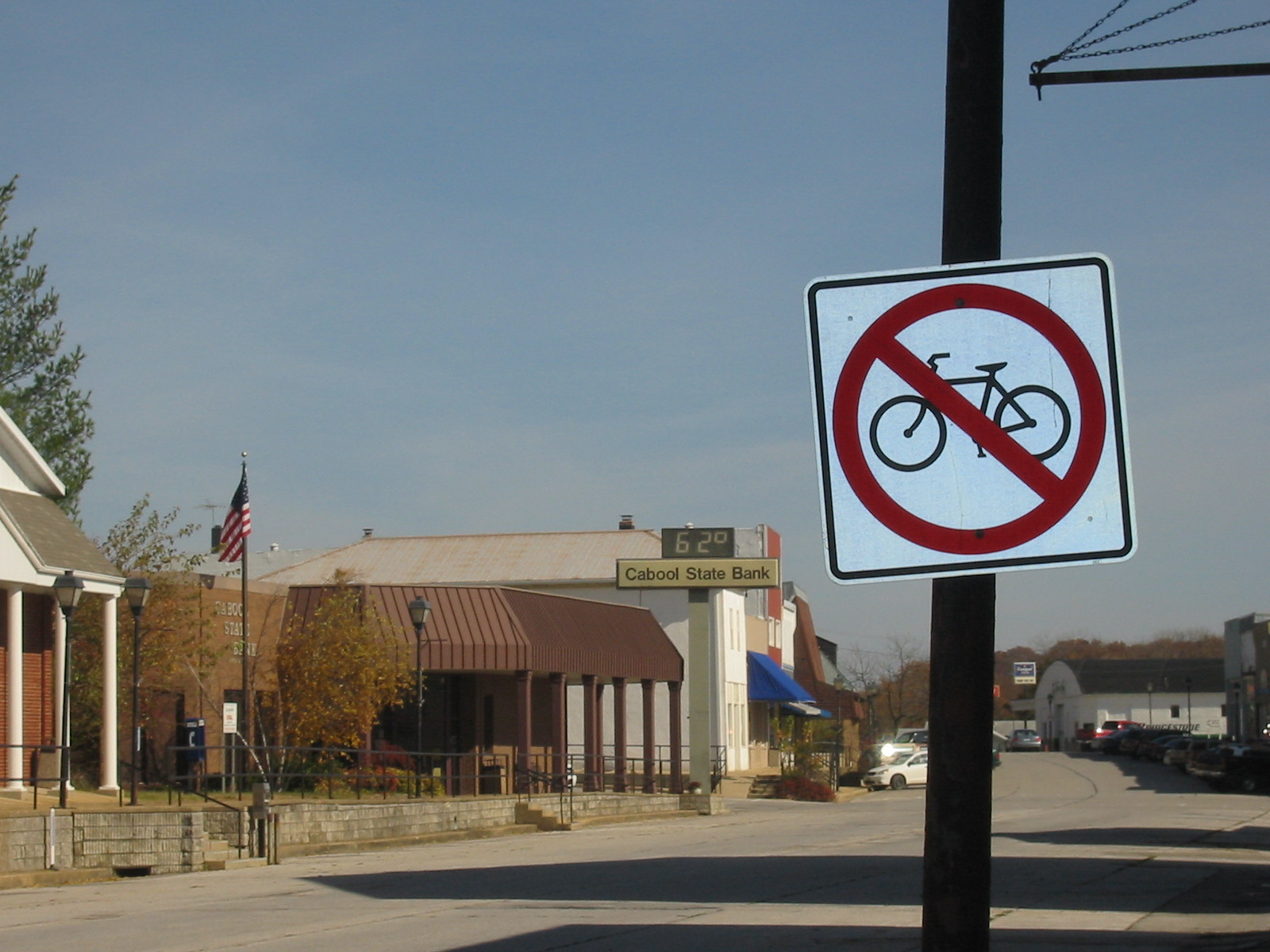 Streetscape. Main street in Cabool, Missouri.